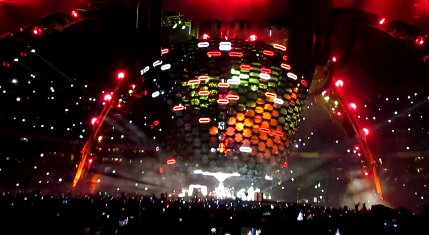 CD. Ciudad Do Mexico DF City U2 360